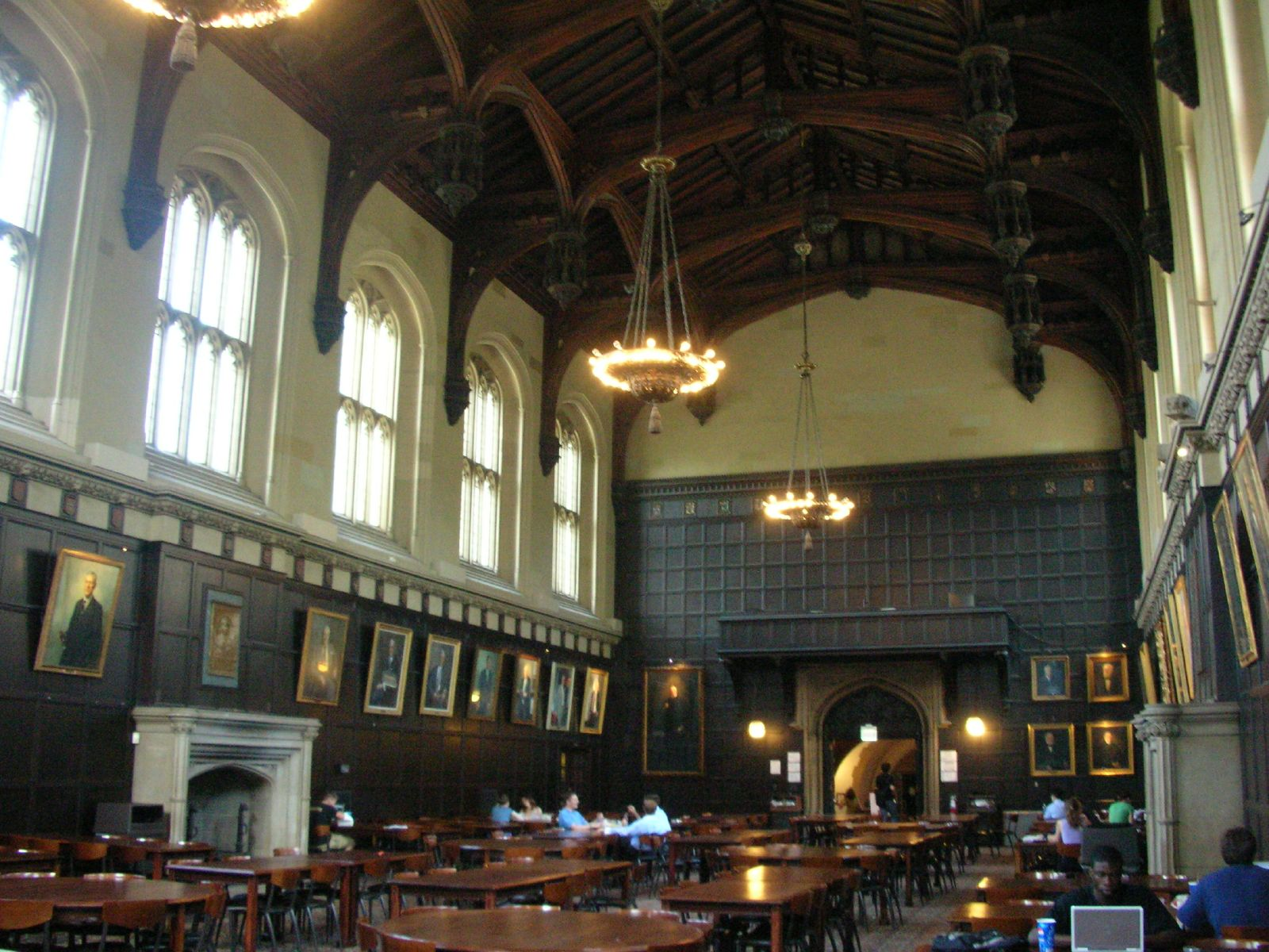 Hutchinson Hall, University of Chicago